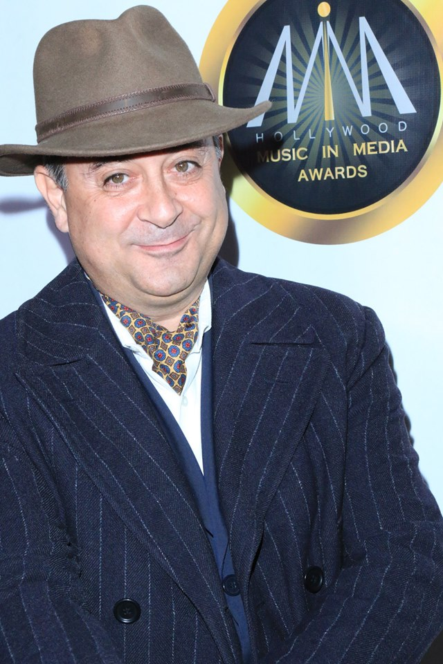 Roberto Tola, nominee at the Hollywood Music in Media Awards - 16th of November 2017 at The Avalon, Hollywood - Los Angeles